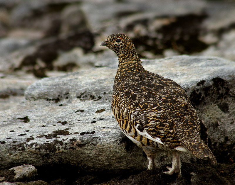 A Willow Ptarmigan in Trollheimen, Norway